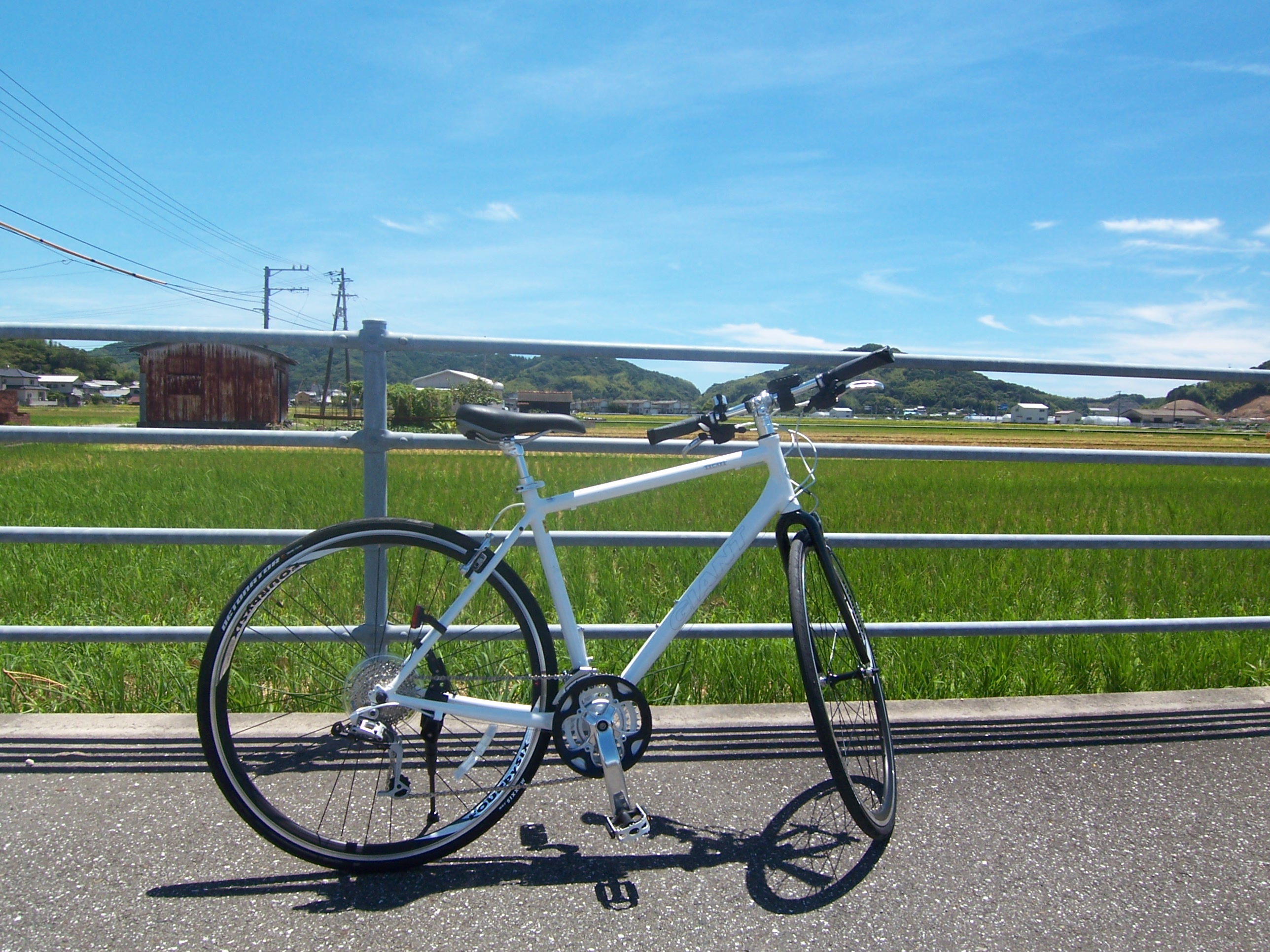 GIANT Escape R2 2008 model